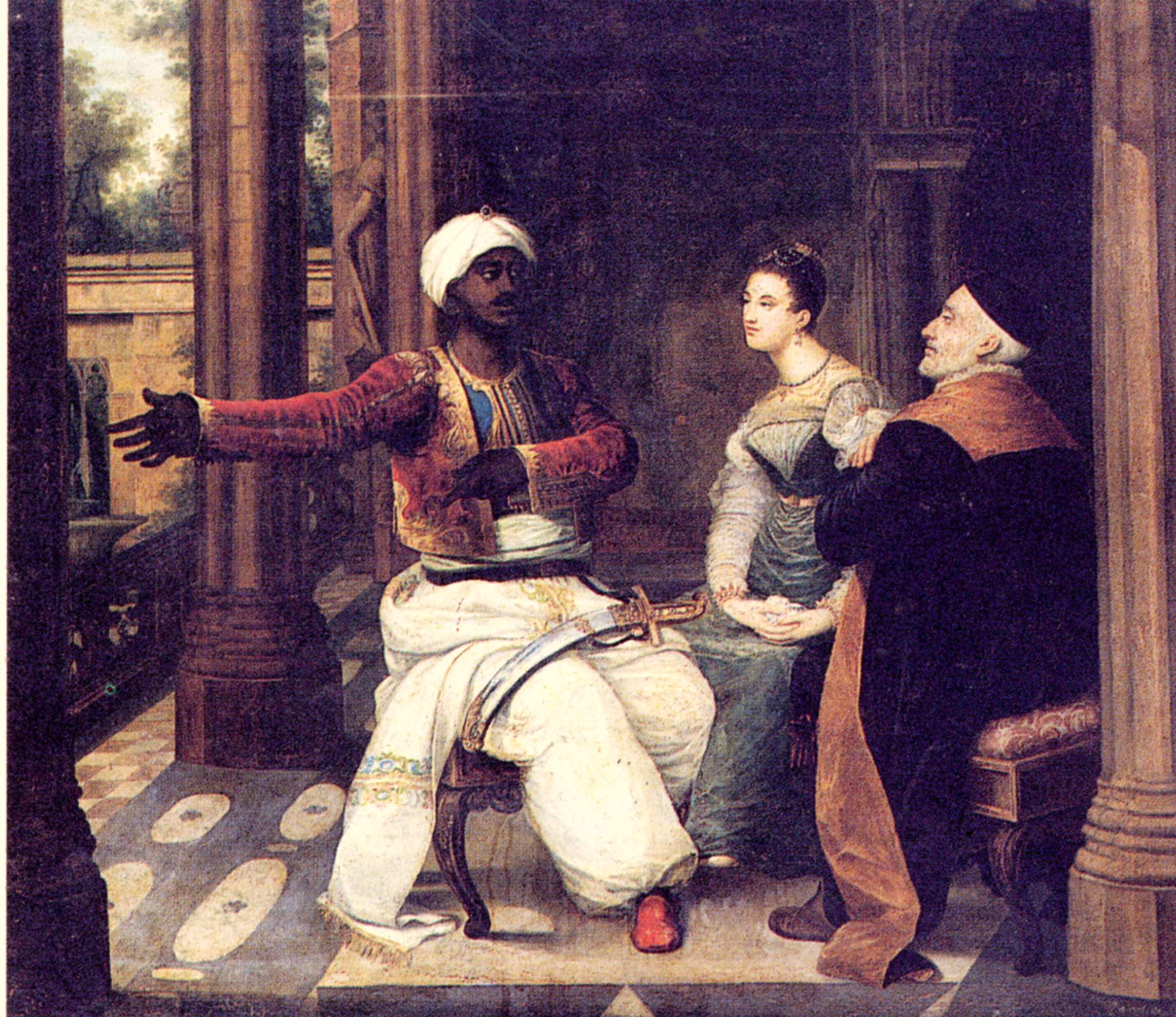 Othello presenting the Doge of Venice and her daughter (a. 1837) oil on canvas, 87 x 100 cm, general inventary: 24